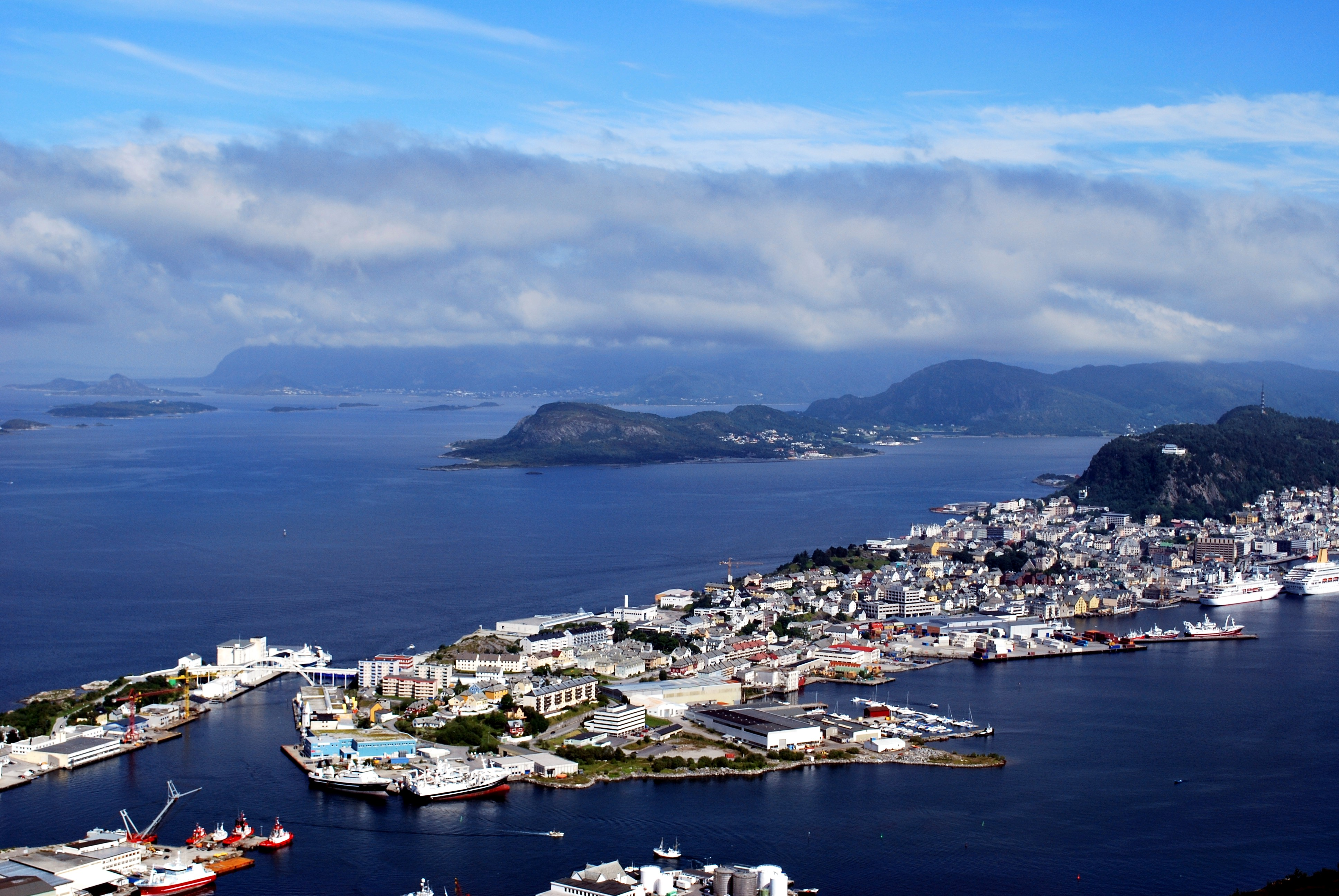 Ålesund, Norway. Aspøya with Aspevågen and Steinvågsundet in foreground, Ellingsøya and Ellingsøyfjorden in background.